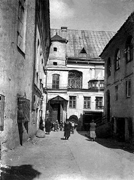 The Great Synagogue Yard, Vilna, 1920-1930